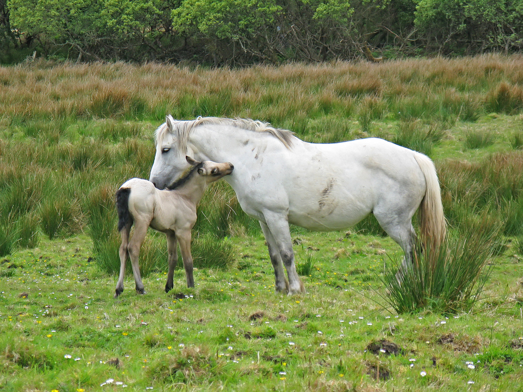 Connemara National Park, Connemara Pony mare and foal